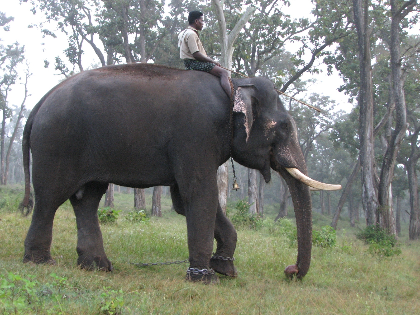 Indian Elephant sighted at Mudumalai.